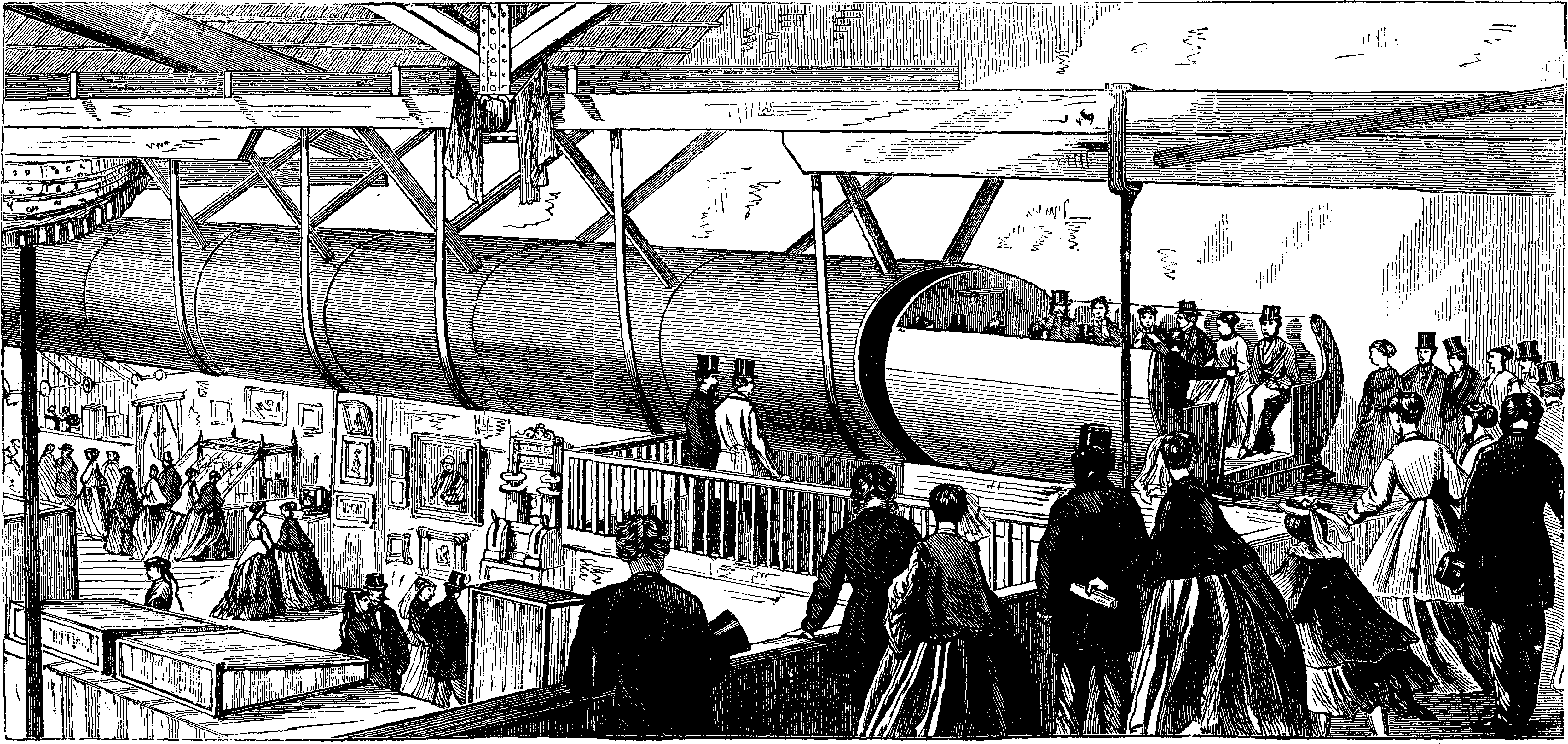 Original caption The Pneumatic Passenger Railway, as Erected at the American Institute, Fourteenth Street, New-York, 1867